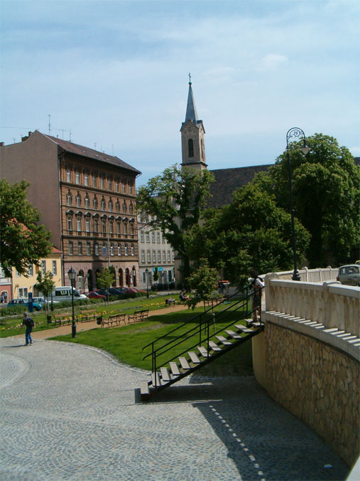 Corvin square, Budapest